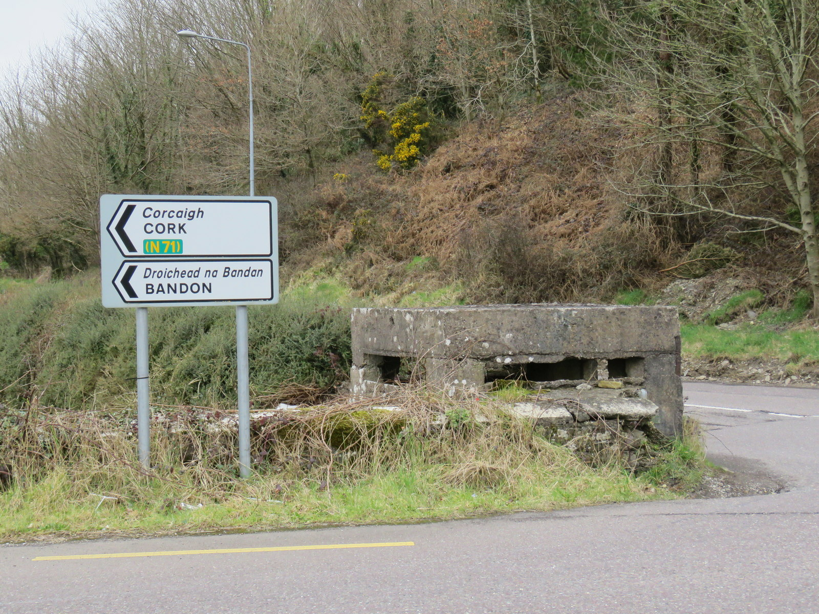 Pill box bunker on the old Cork to Bandon Road